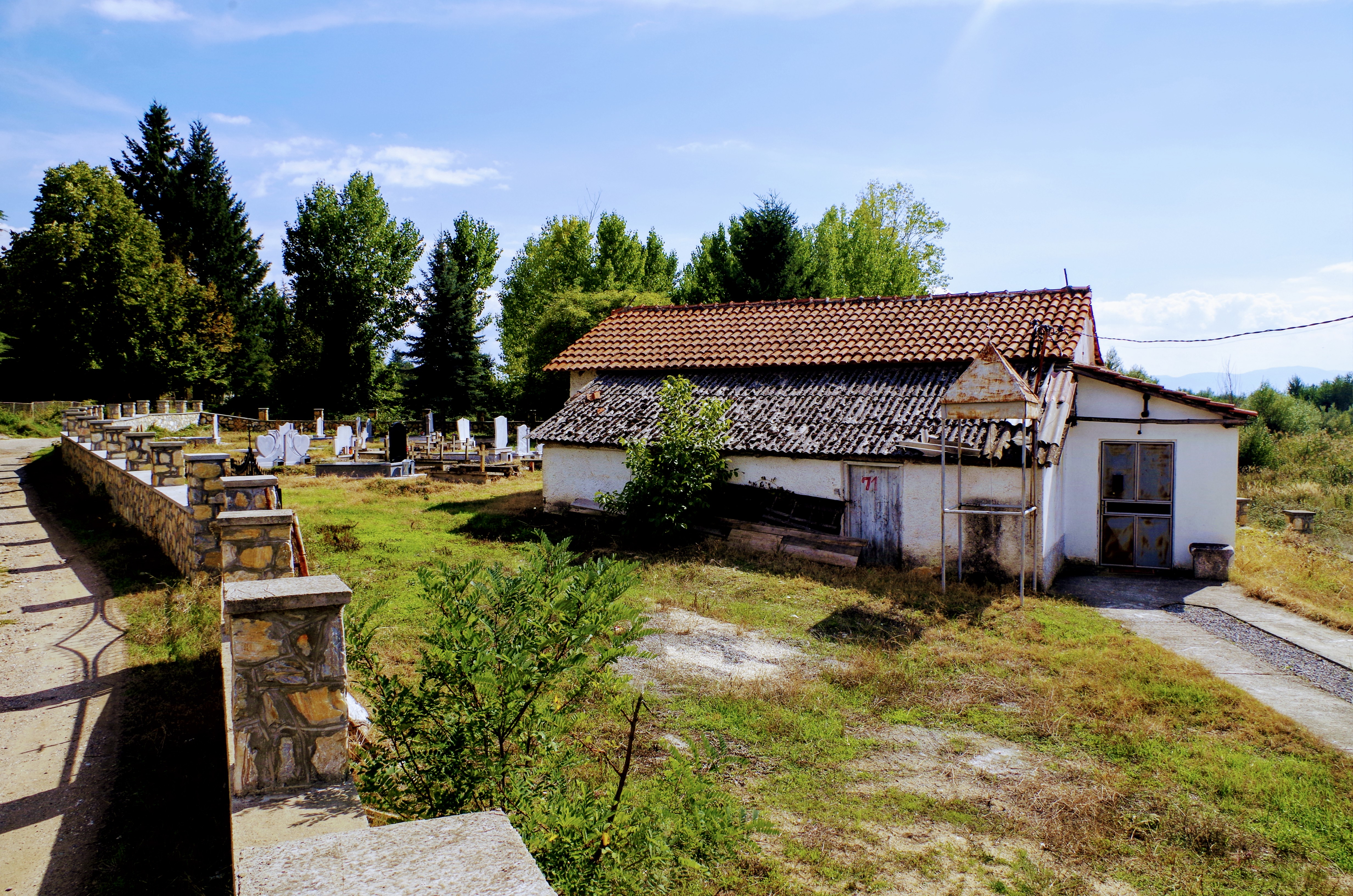 View of St. Michael the Archangel Church in the village Asamati